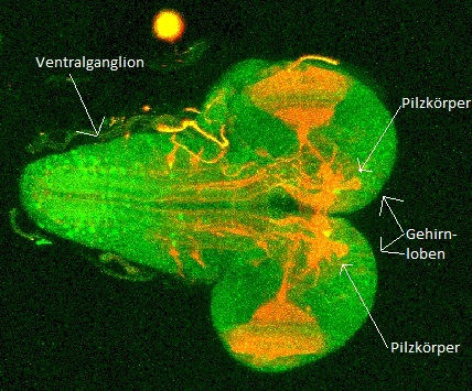 Overlay einer Immunlfärbung des Genotyps chaGAL4x10xUAS-myr-GFP (grün) mit Maus-anti-FasII (rot). Zu sehen ist das zentrale Nervensystem mit dem Ventralganglion, den Pilzkörpern und den Gehirnloben